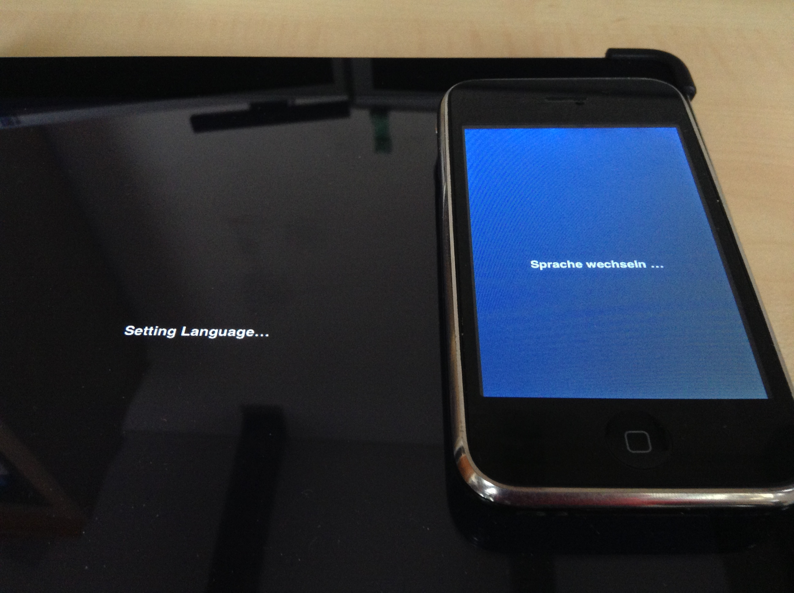 Respring of an iPhone 3GS and iPad 2